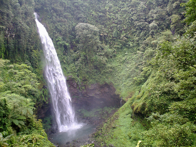 Curug Cipendok located in Banyumas Regency